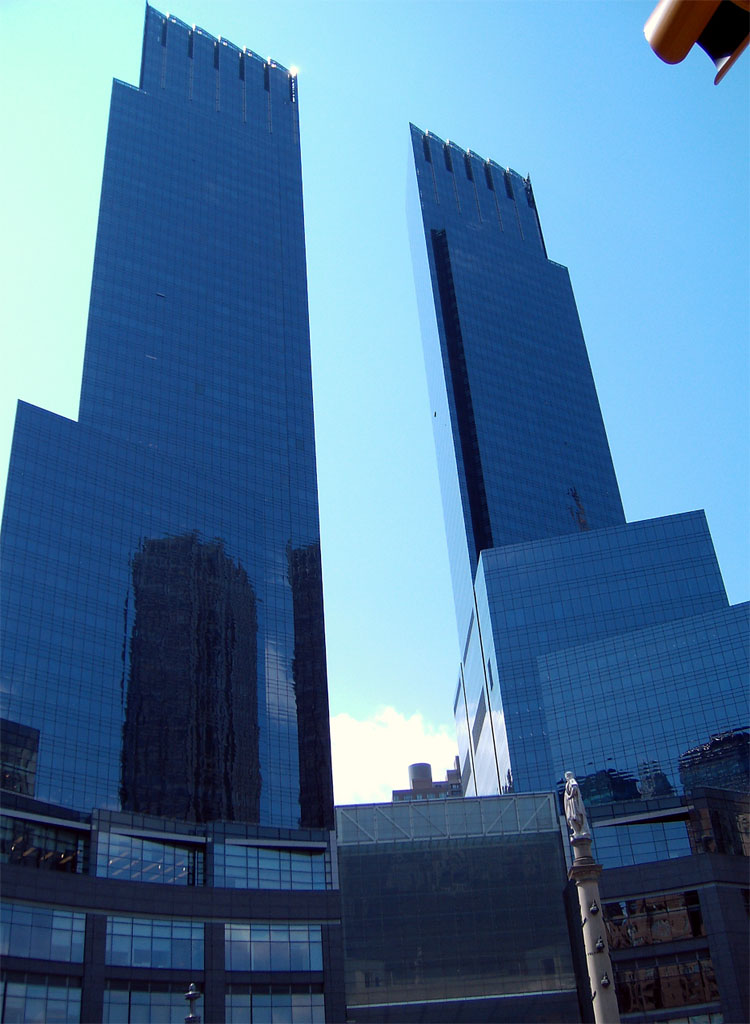 The Time Warner Center at the Columbus Circle in New York City.